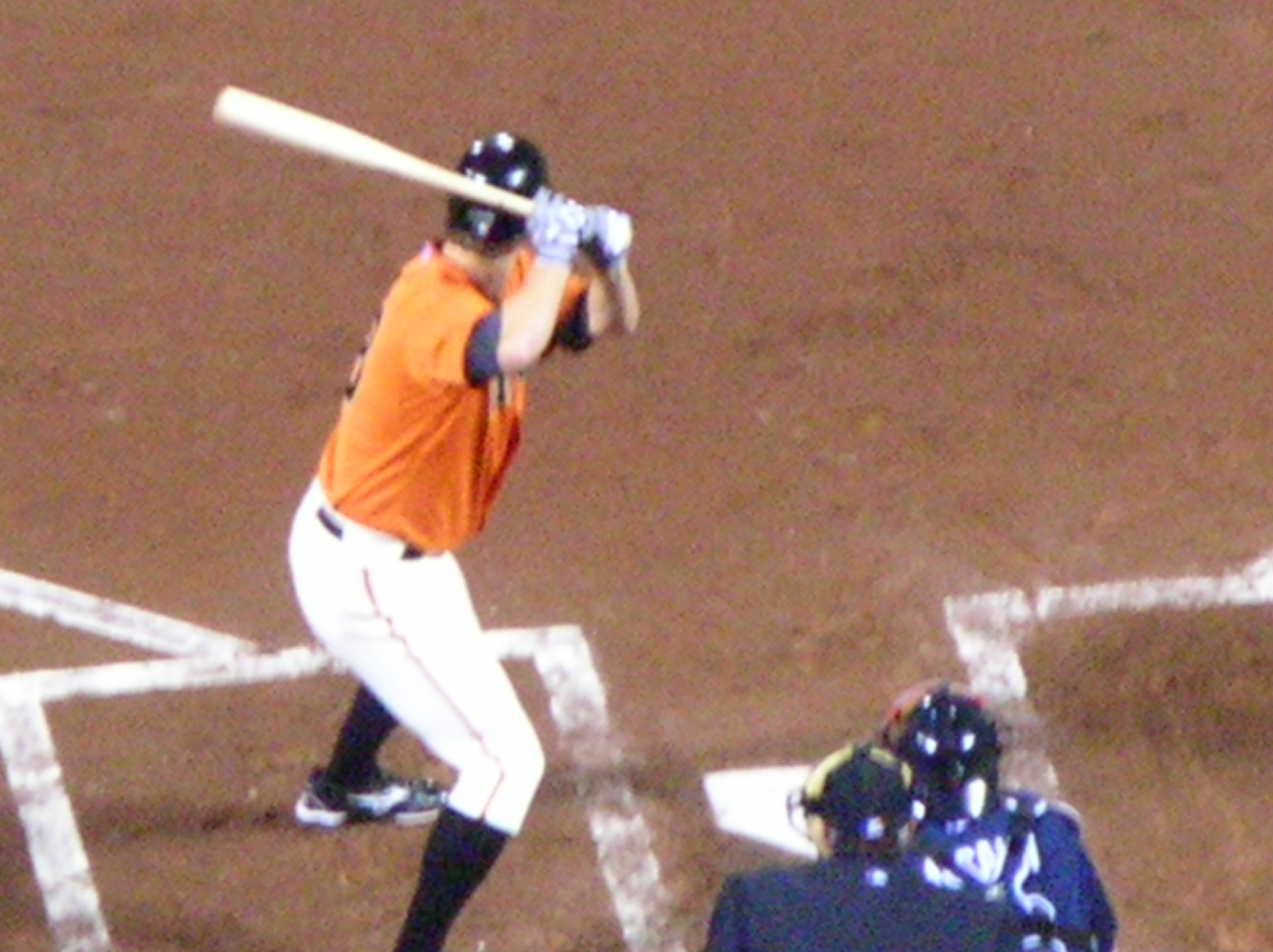 San Francisco Giants starting pitcher Matt Cain at bat during Game 2 of the National League Division Series against the Atlanta Braves at AT&T Park. The Braves won 5-4 in extra innings. The Giants went on to win the series 3 games to 1.